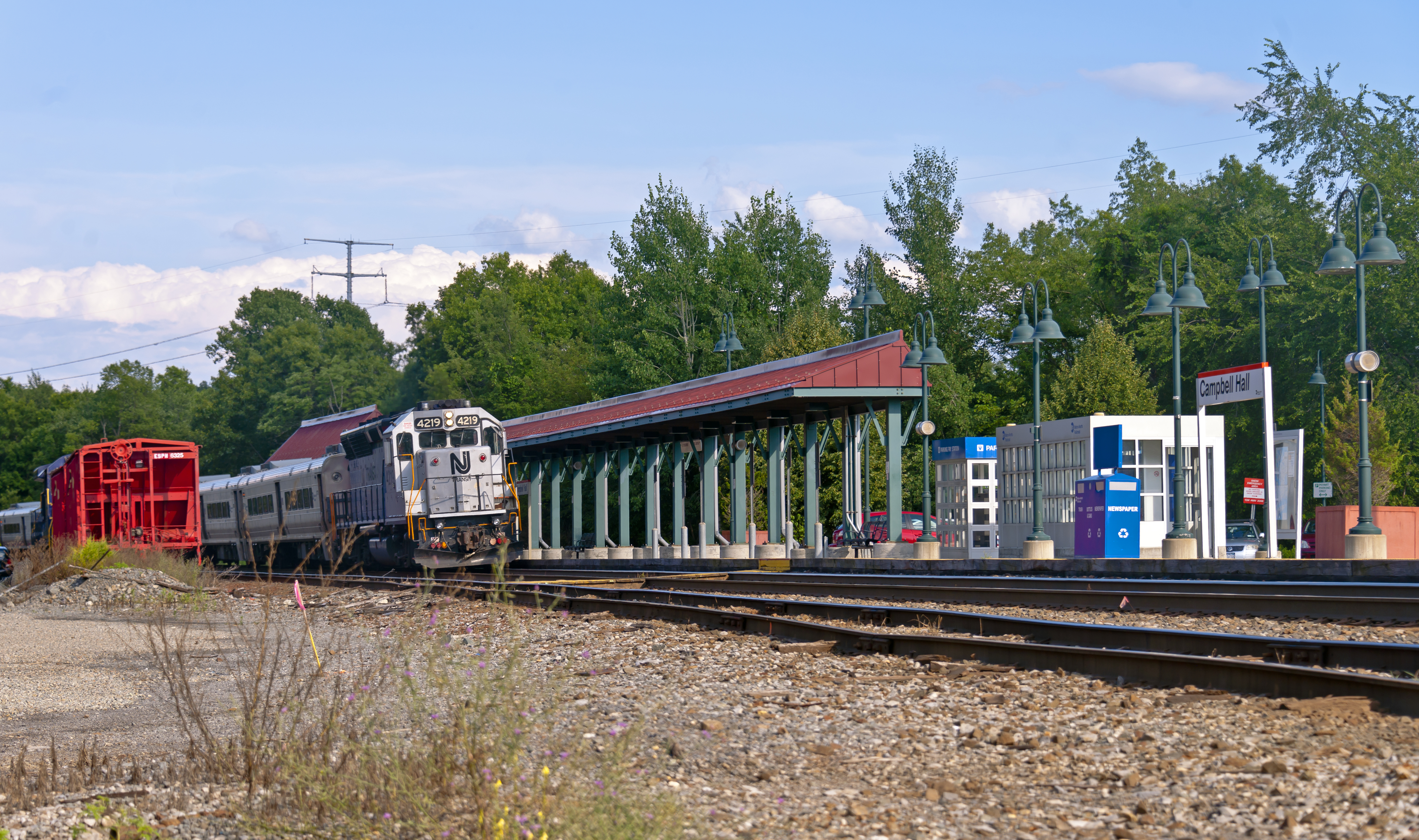 Metro-North commuter train pulled by NJ Transit GP-40 arrives at Campbell Hall, NY, station on the Port Jervis Line during evening rush hour.